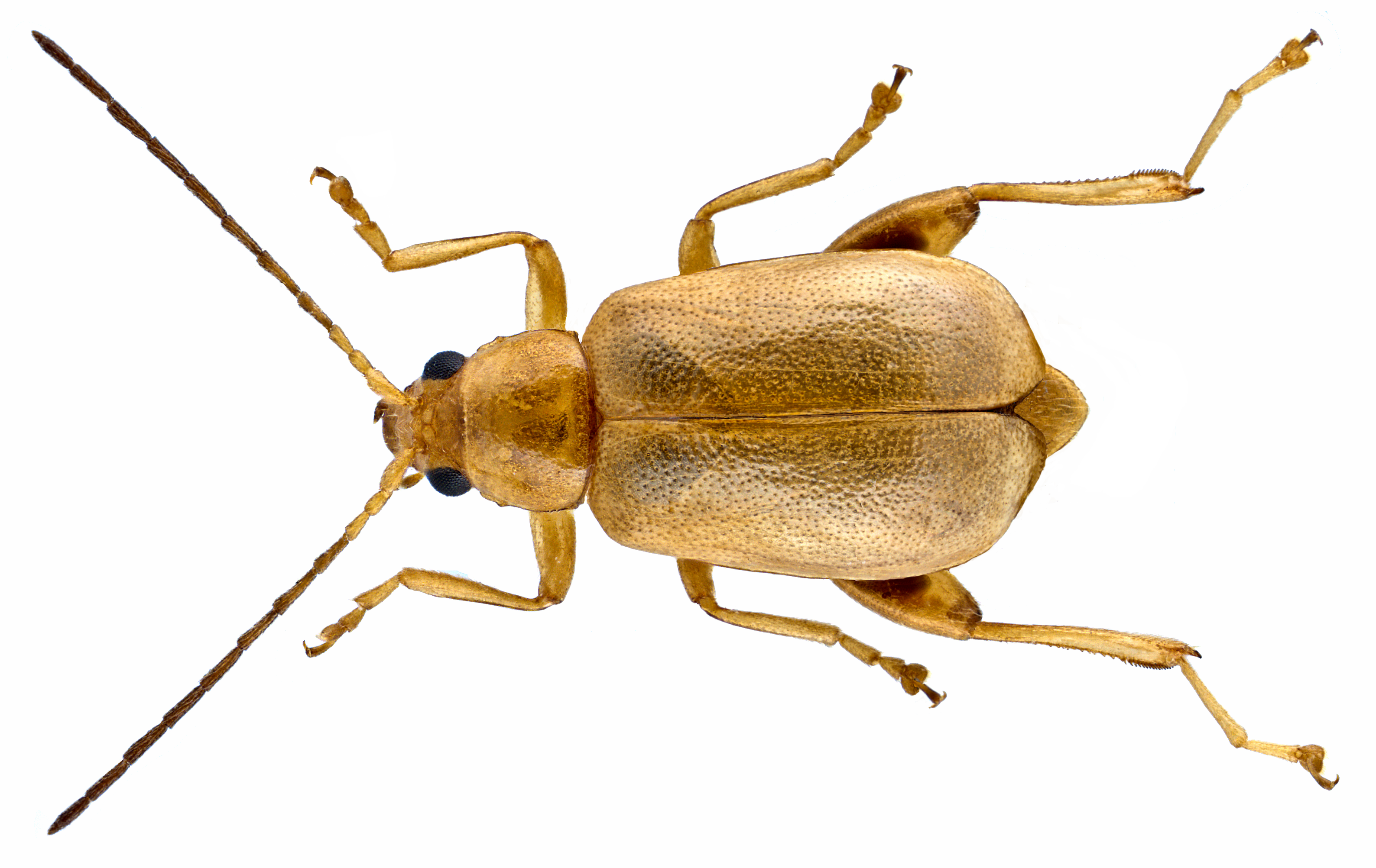 Family: Chrysomelidae Size: 3.0 mm Location: Spain, Canary Islands, Tenerife, Güimar, Pyramids leg. J.Schoenfeld, 24.X.2003; det. Doeberl, 2005 Photo: U.Schmidt, 2014